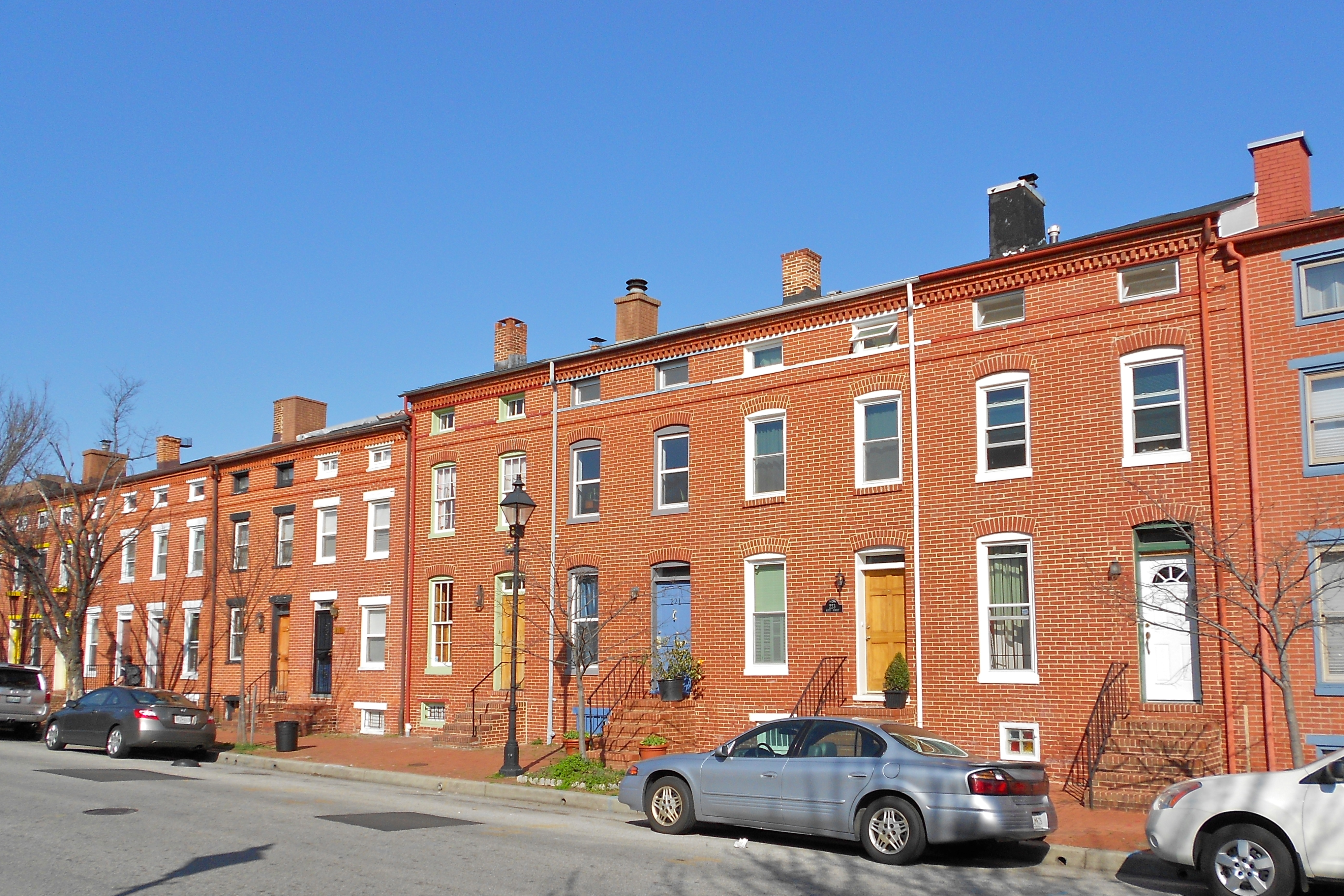 Barre Circle Historic District on the NRHP since January 10, 1983. The historic district is roughly bounded by Scott St., Ramsey St., Boyd St., and Harbor City Boulevard./S. Fremont St. in south Baltimore, Maryland.